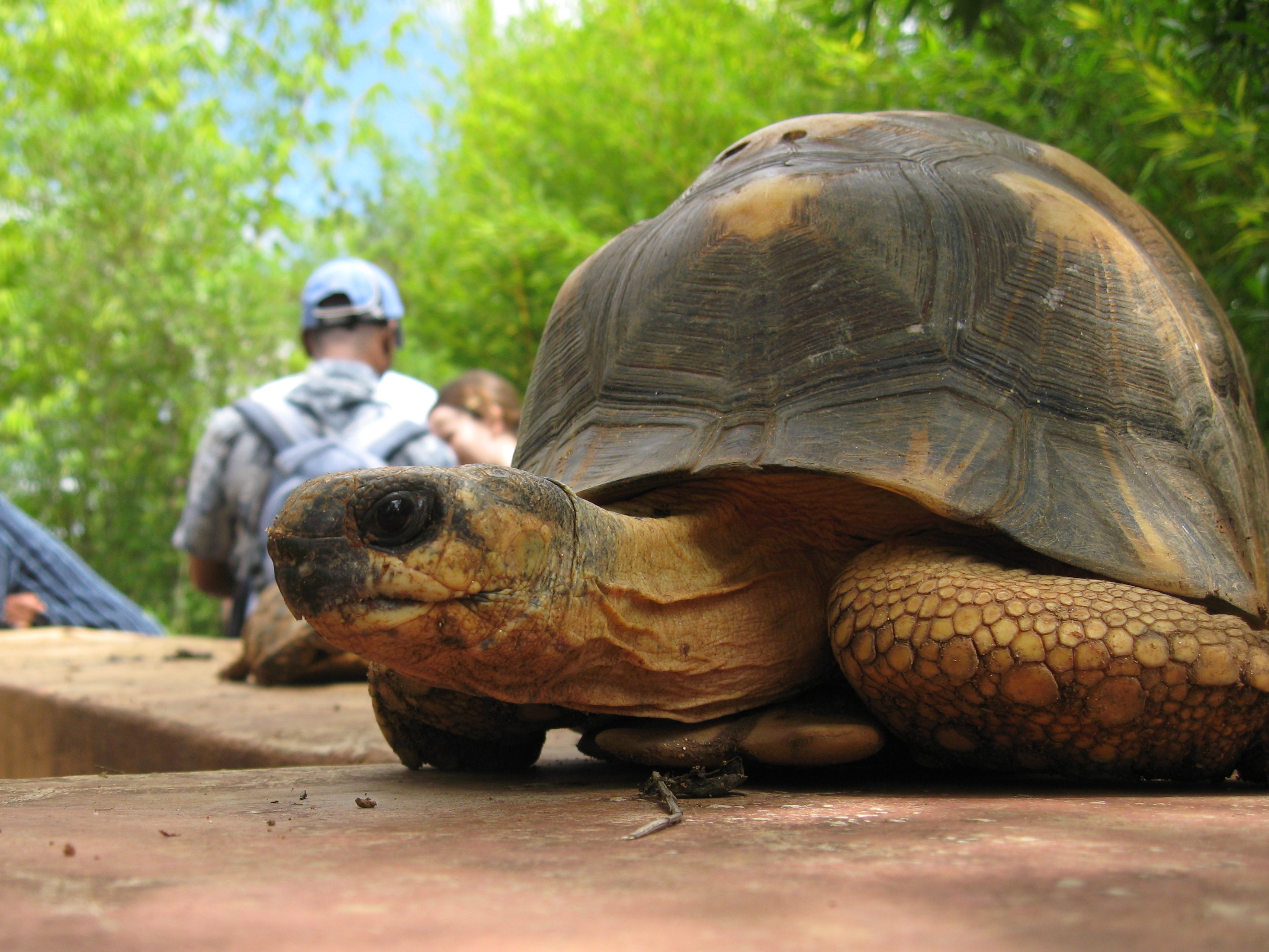 Tortoise at Lemurs' Park